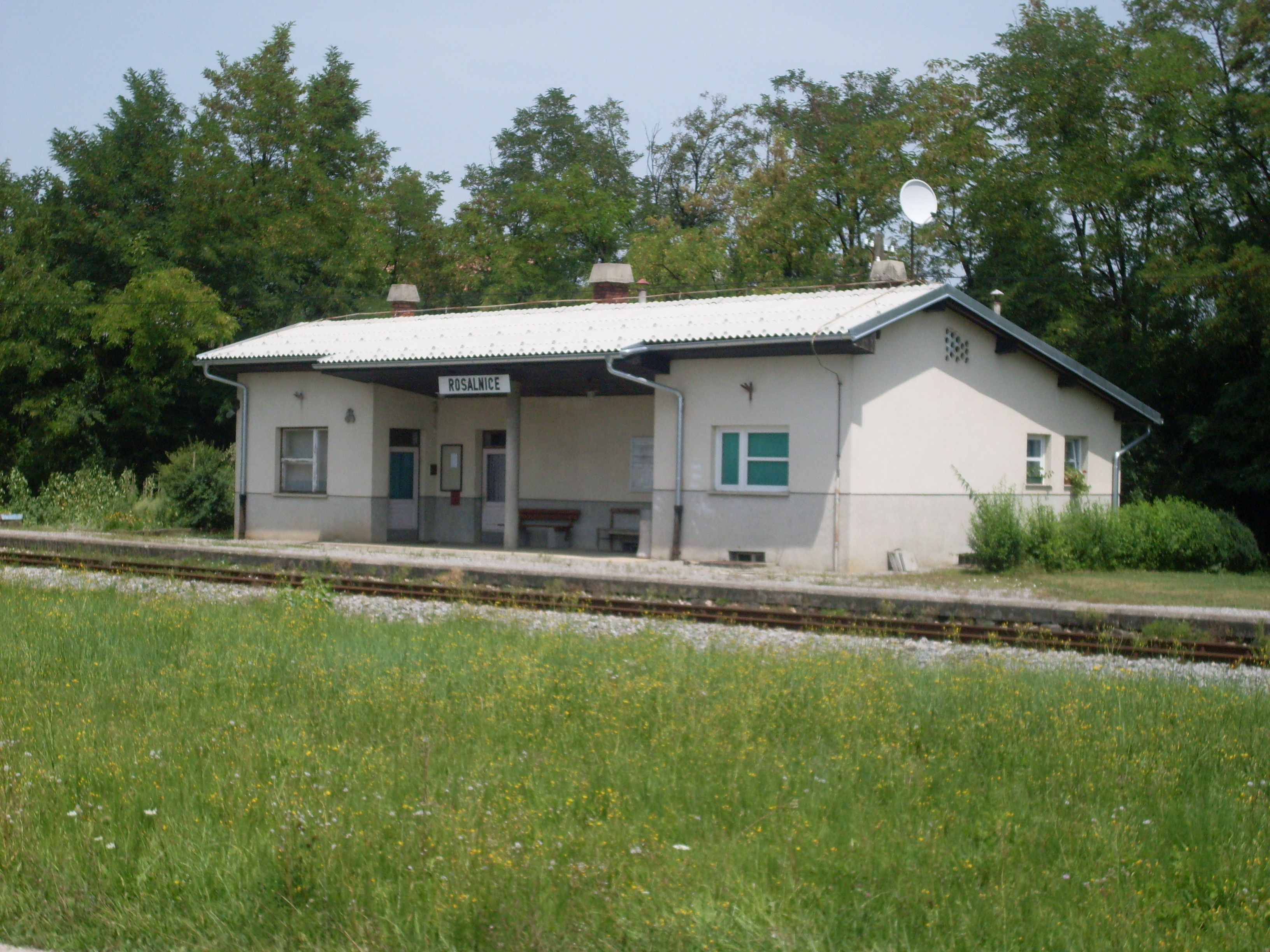 Railway halt in Rosalnice